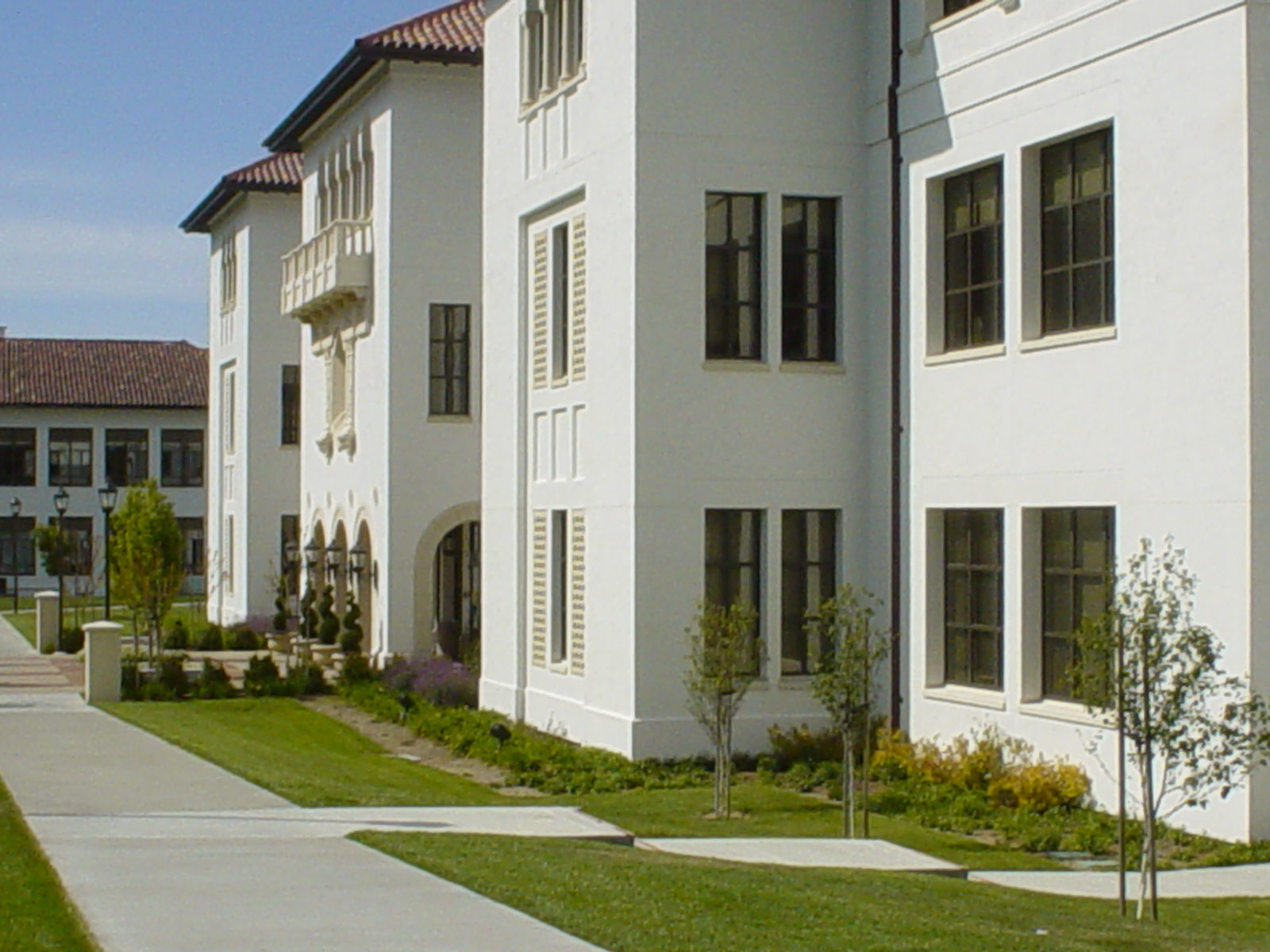 Brother Alfred Brousseau Hall (formerly J.C. Gatehouse) Hall at Saint Mary's College of California